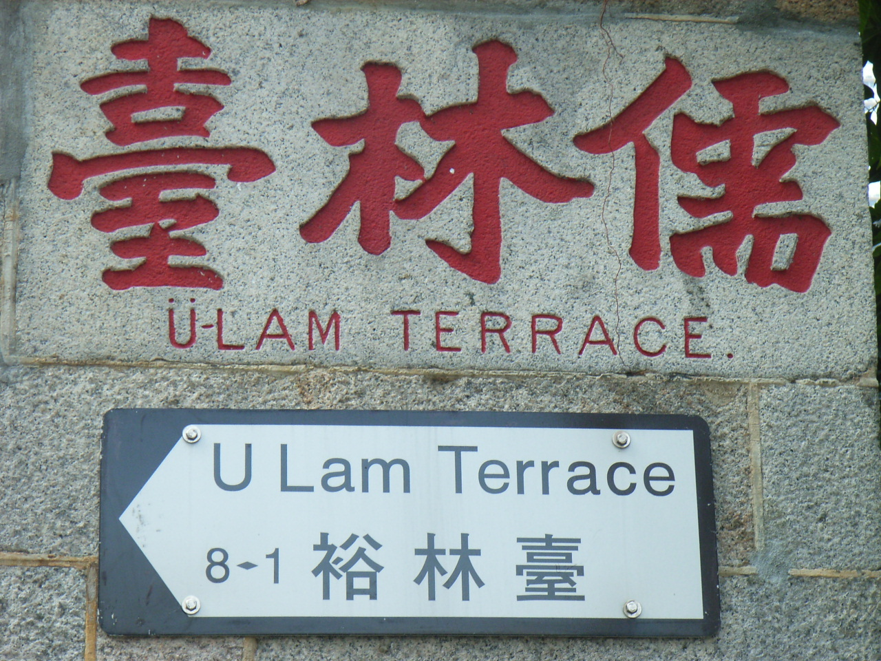 Photographer & author: User:BITBITSW 裕林臺，以前又稱為儒林臺，是香港香港島zh:上環的一條街道，於zh:香港醫學博物館之下。